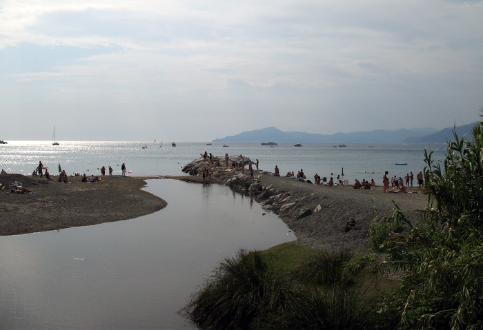 The mouth of the Gromolo torrent in the "Baia delle Favole" (Bay of the fables) of Sestri Levante